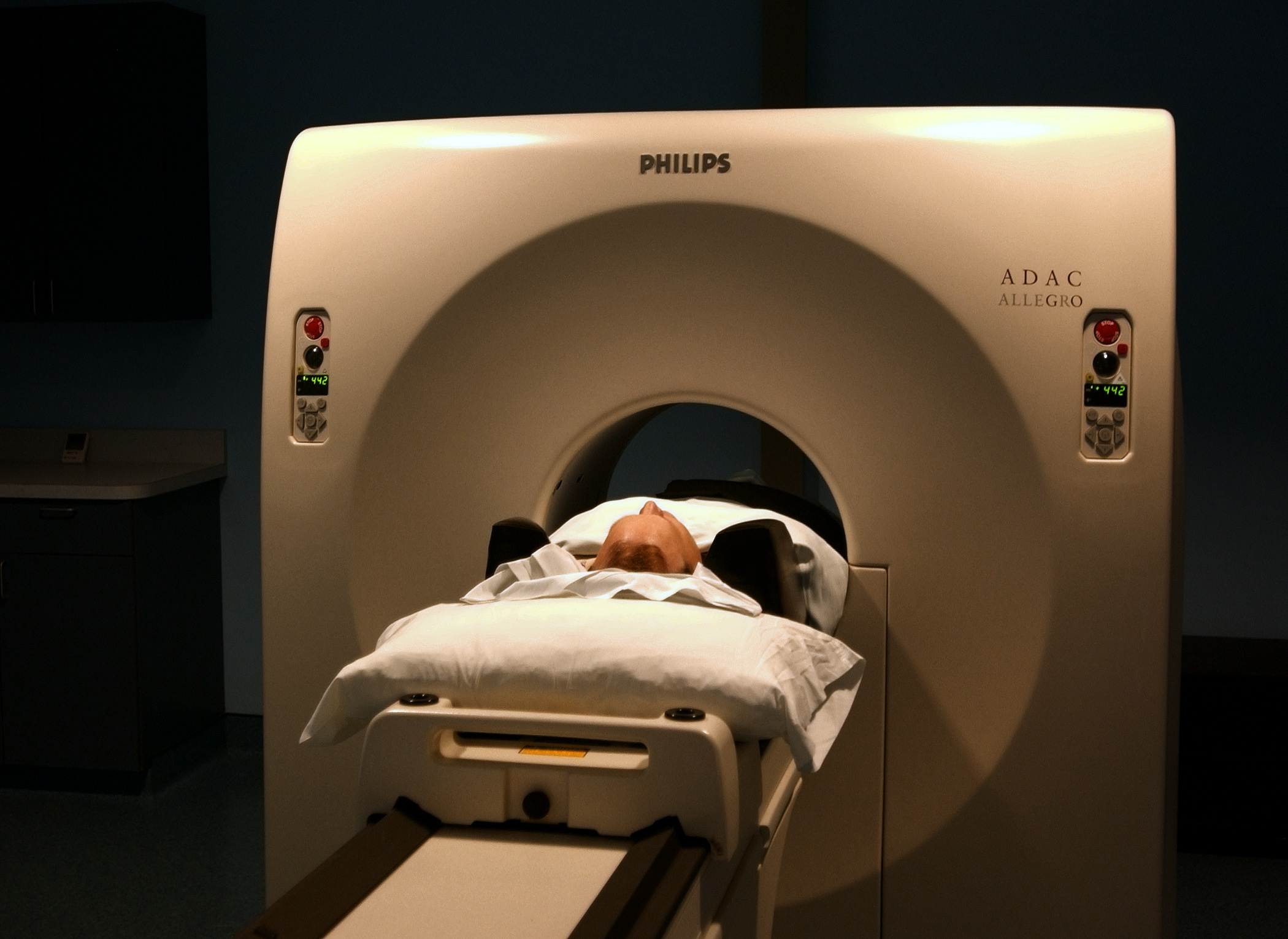 National Naval Medical Center, Bethesda, Md., (Aug. 19, 2003) -- A patient goes through Positiron Emmission Tomography, (PET) at the National Naval Medical Center in Bethesda, Maryland. The PET imaging scanner is the first one placed in any Department of Defense medical facility. U.S. Navy photo by Chief Warrant Officer 4 Seth Rossman. (RELEASED)